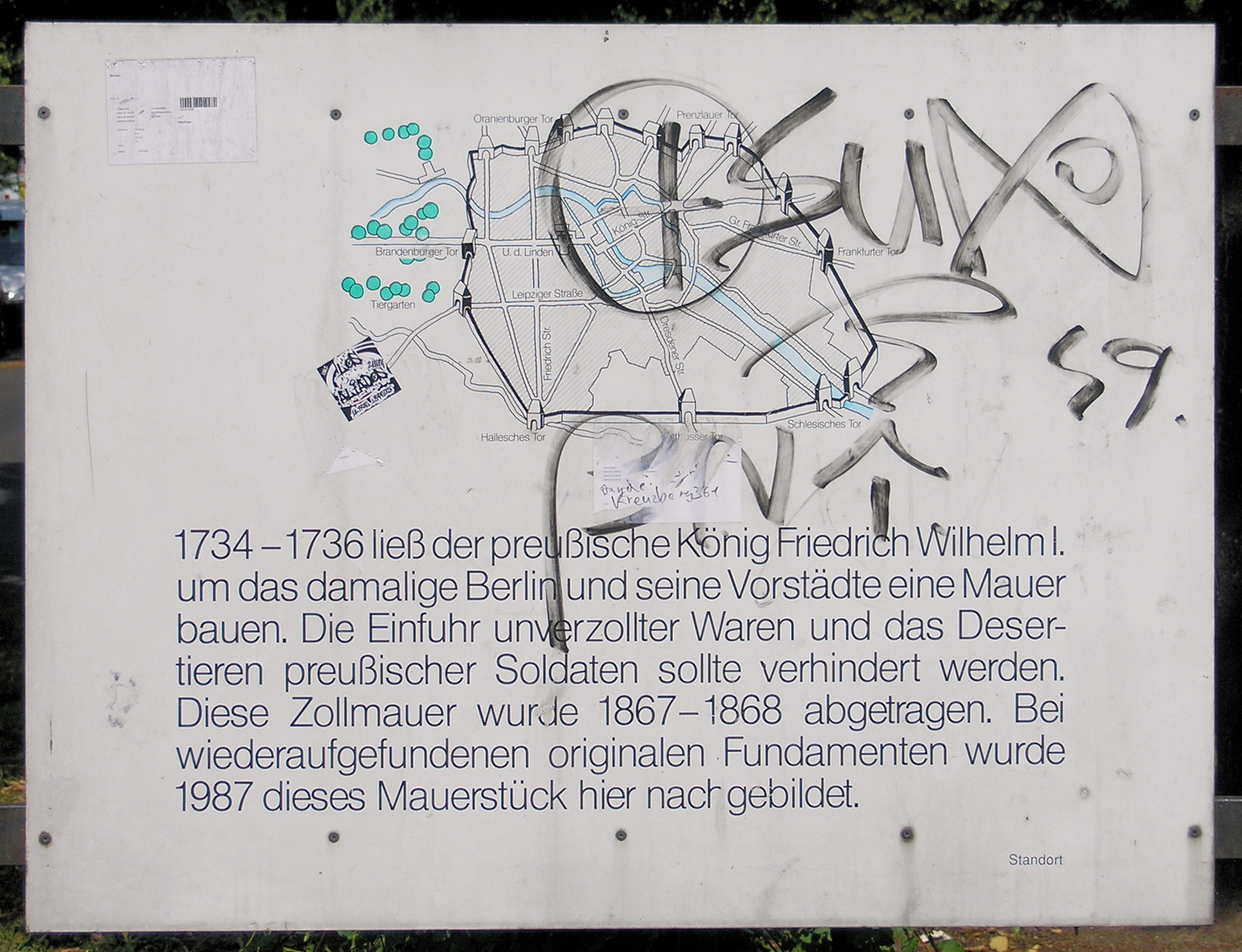 Memorial plaque, Berliner Zollmauer, Stresemannstraße 64, Berlin-Kreuzberg, Germany